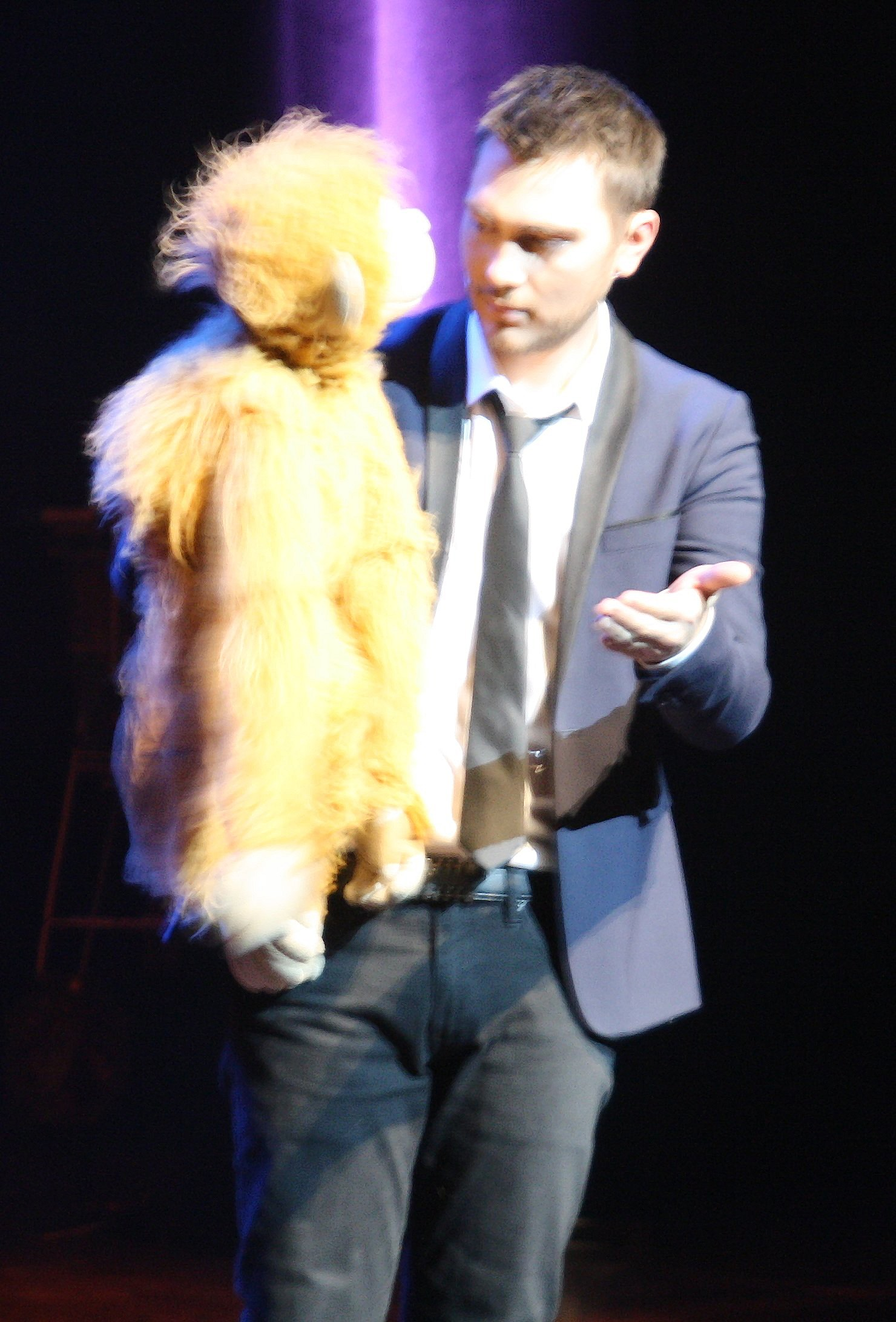 The ventriloquist Jeff Panacloc and his monkey Jean-Marc in a show at the Théâtre Luxembourg of Meaux.